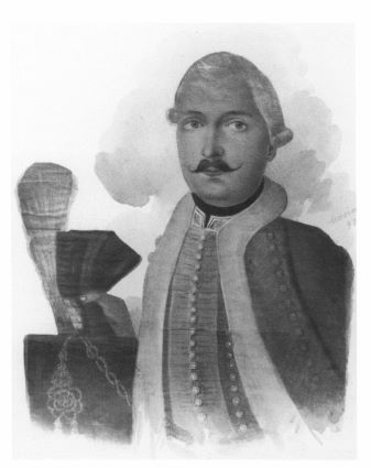 Johann Meszaros von Szoboszlo